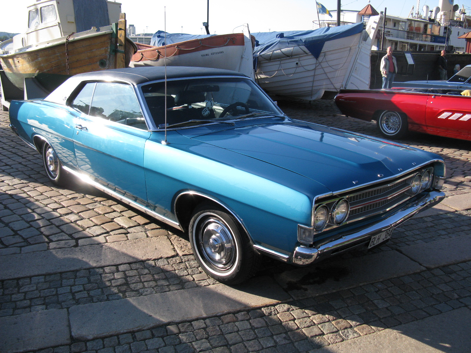 Ford Torino 1969, chassis number 9K40F179811. 128kW according to Swedish registration authorities, automatic transmission. Assembled in Kansas City, MO and equipped with a V8 302-2v 220hp 9.5:1 according to FoMoCo. Came to Sweden in 2009.